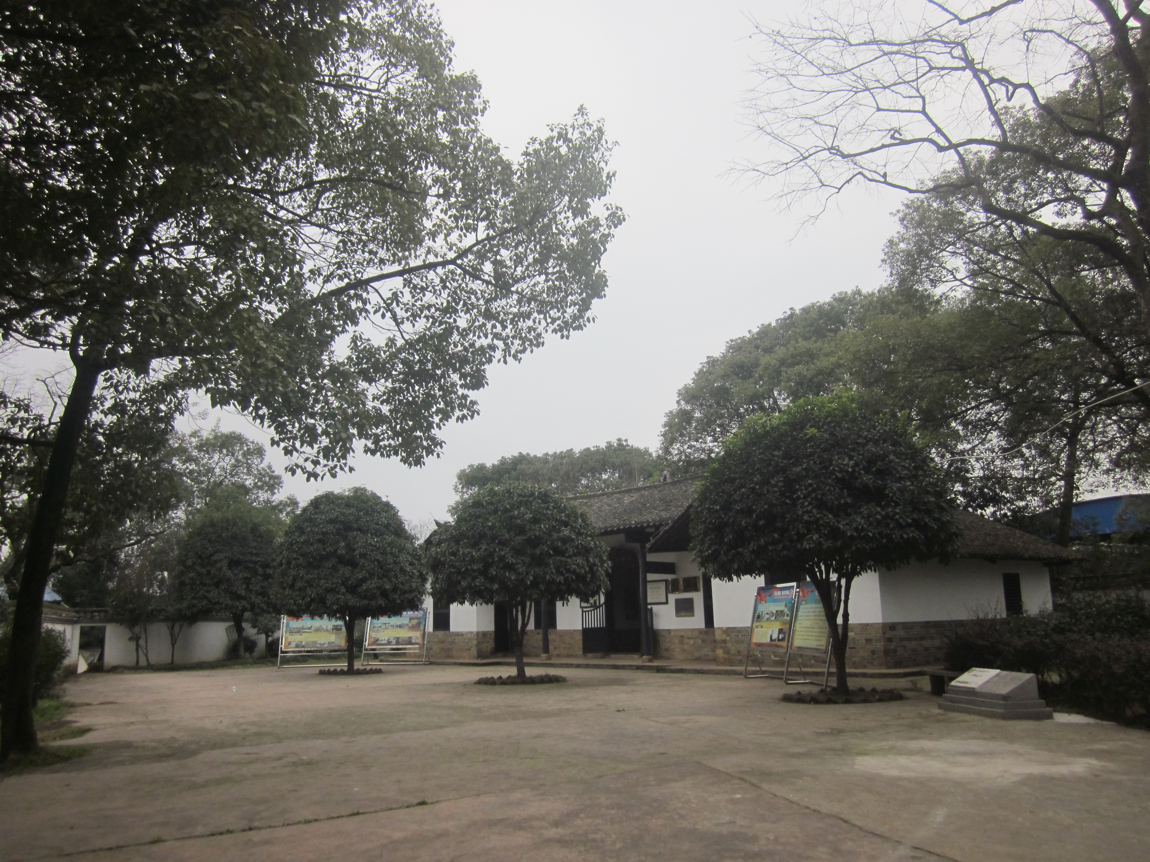 The Former Residence of Xu Guangda in Huangxing Town of Changsha County, Hunan, China.